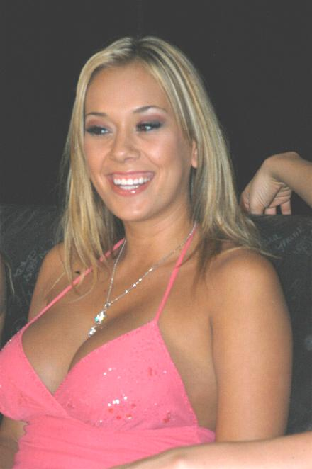 Lexi Marie, on Set Of DP Tonight on August 24, 2004.